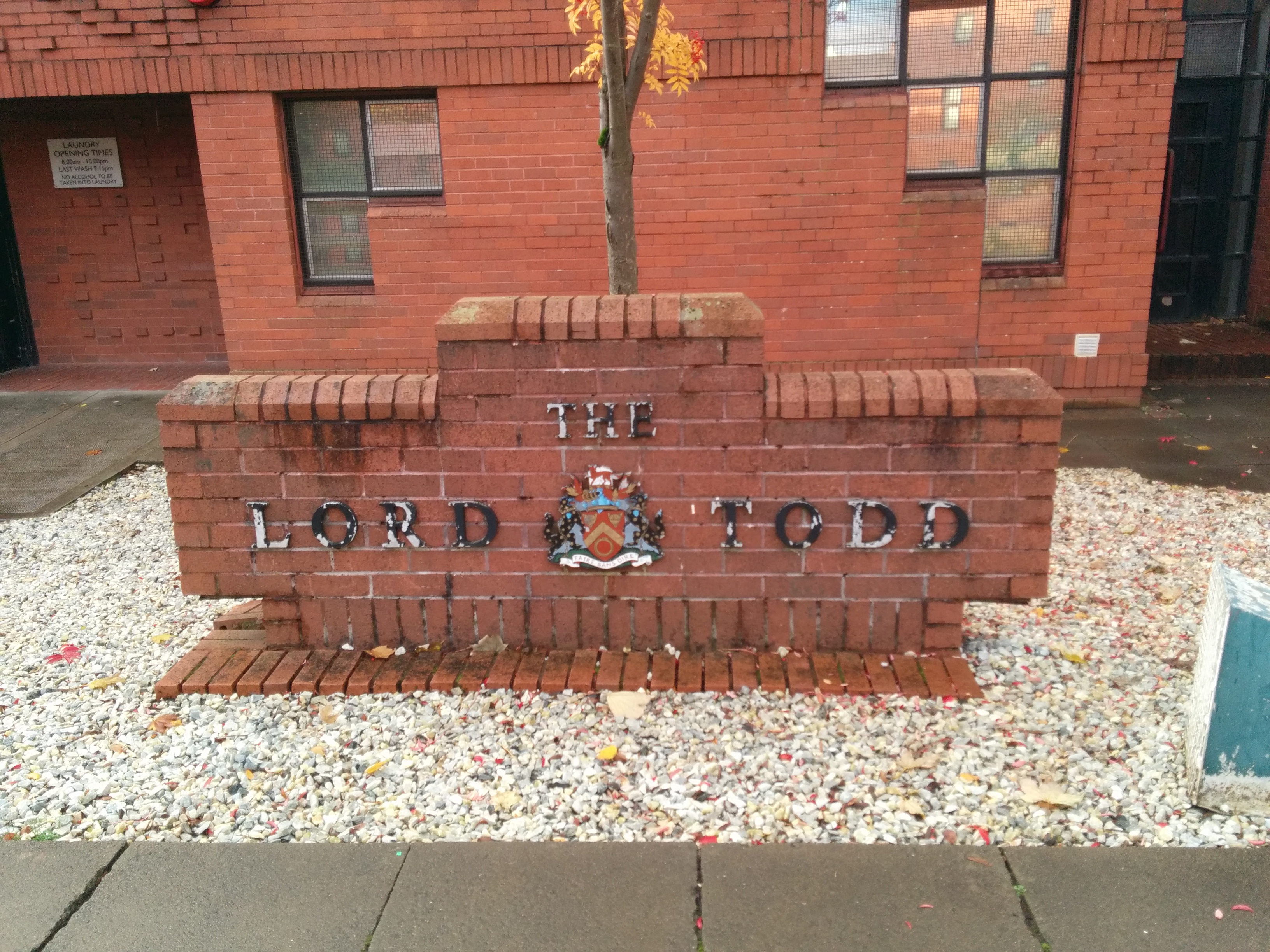 Picture of The Lord Todd (Strathclyde)